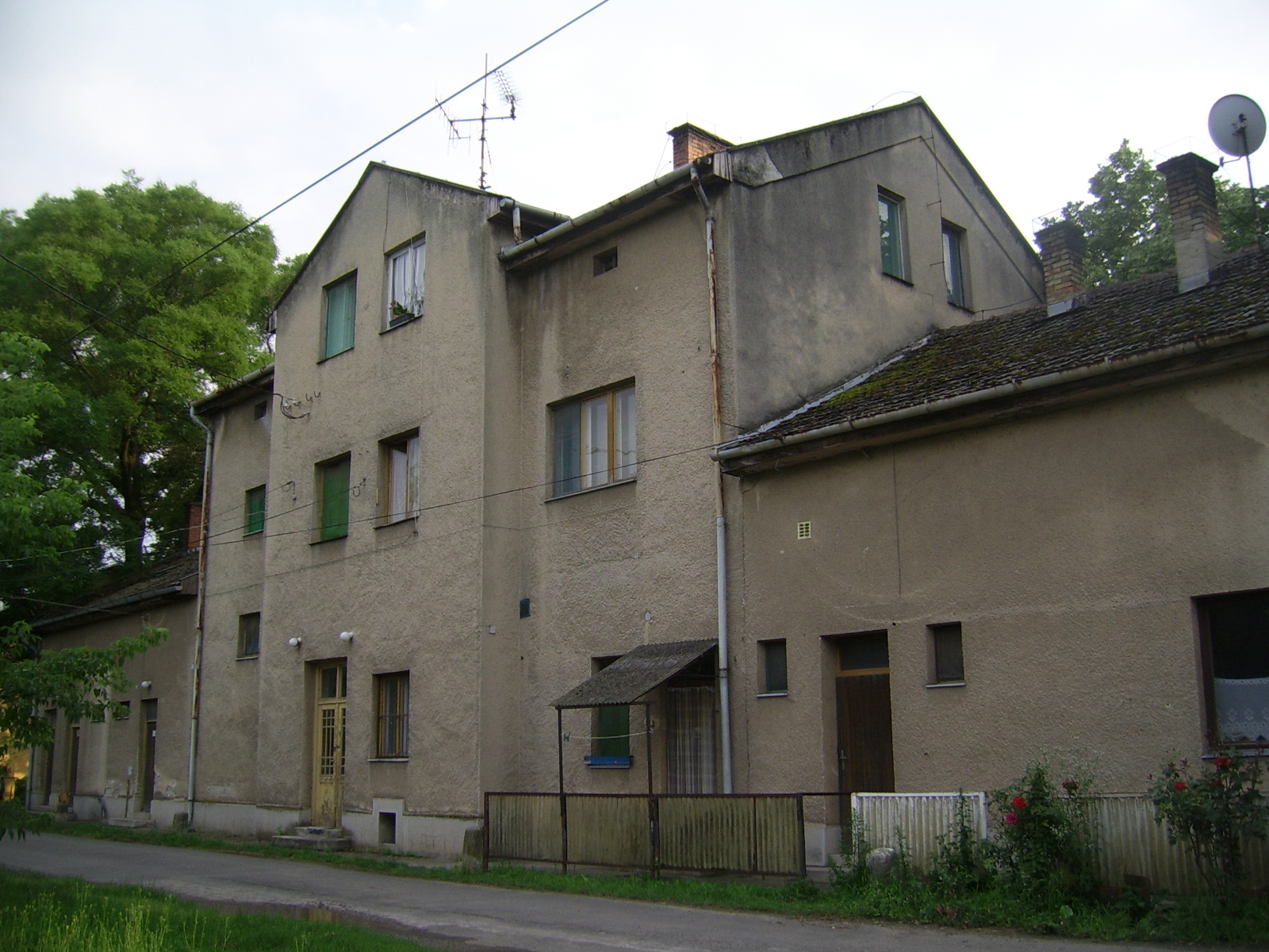 Szőreg railway station, Hungary